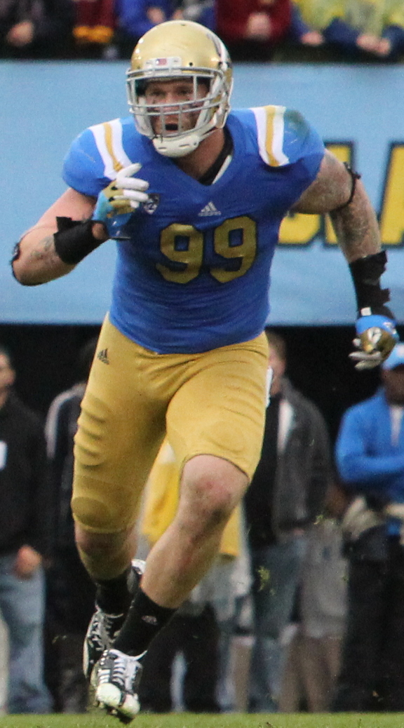 Cassius Marsh, from UCLA's 38-28 victory over the USC Trojans at the Rose Bowl on Nov. 17, 2012. (James Santelli/Neon Tommy)